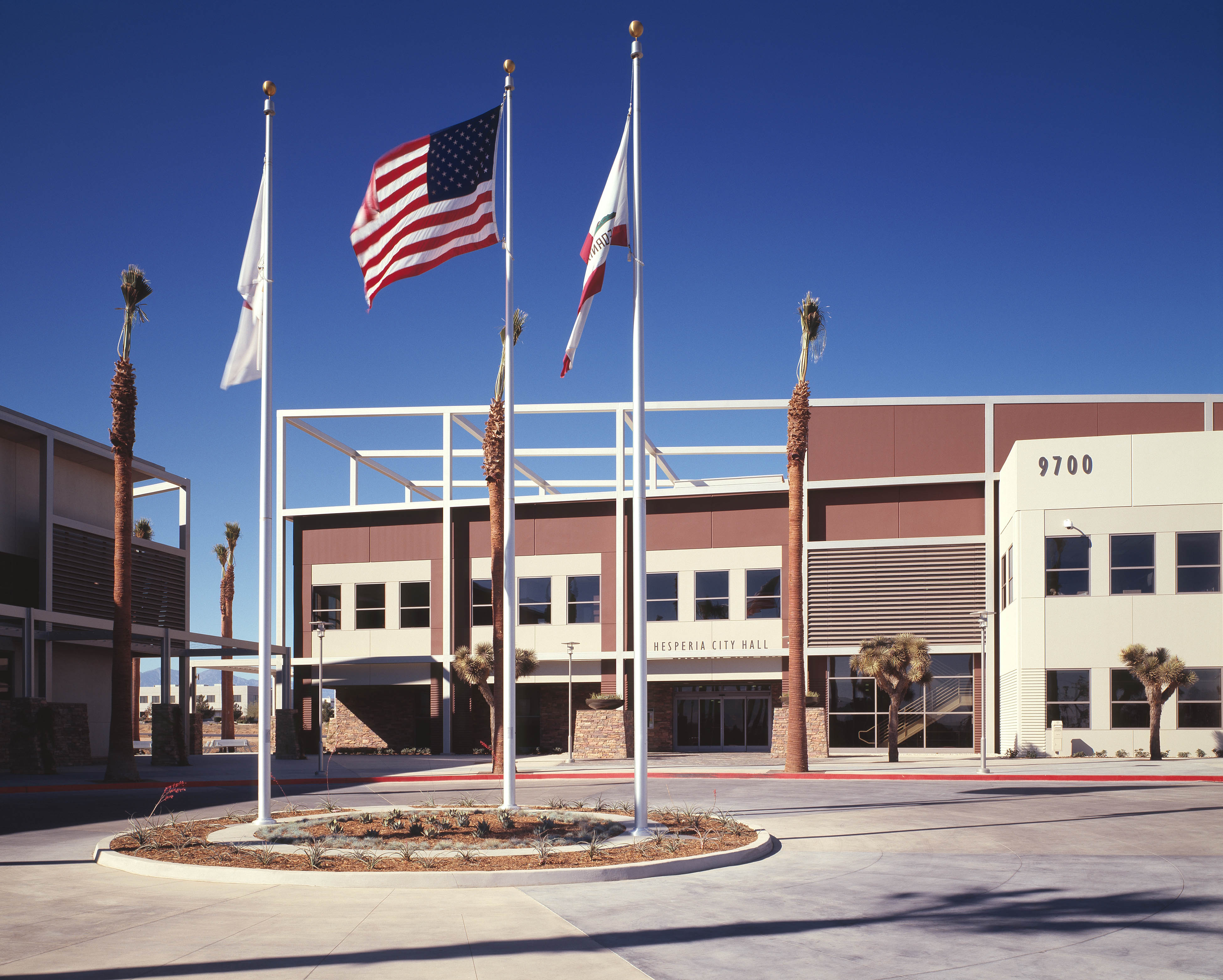 City of Hesperia City Hall after completion.